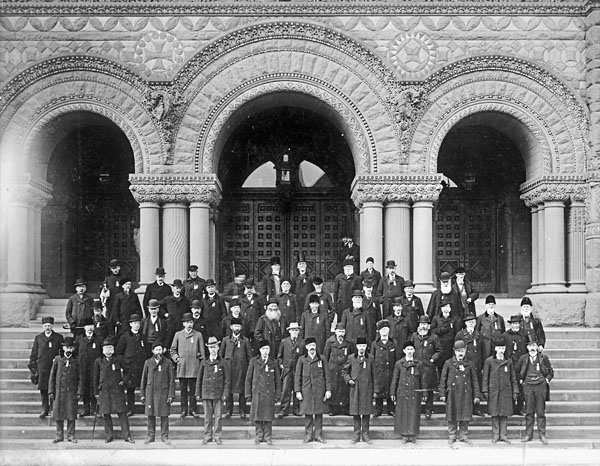 Veterans of the Fenian Raid, 1866, standing in front of the (then) Toronto City Hall building, Queen's Park, Toronto